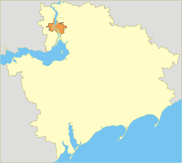 Контурная_карта_Запорожья_Запорожской_области